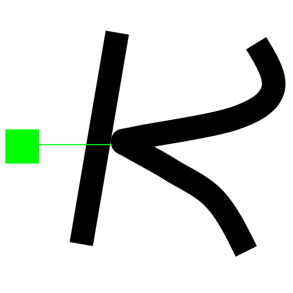 tangenting curve